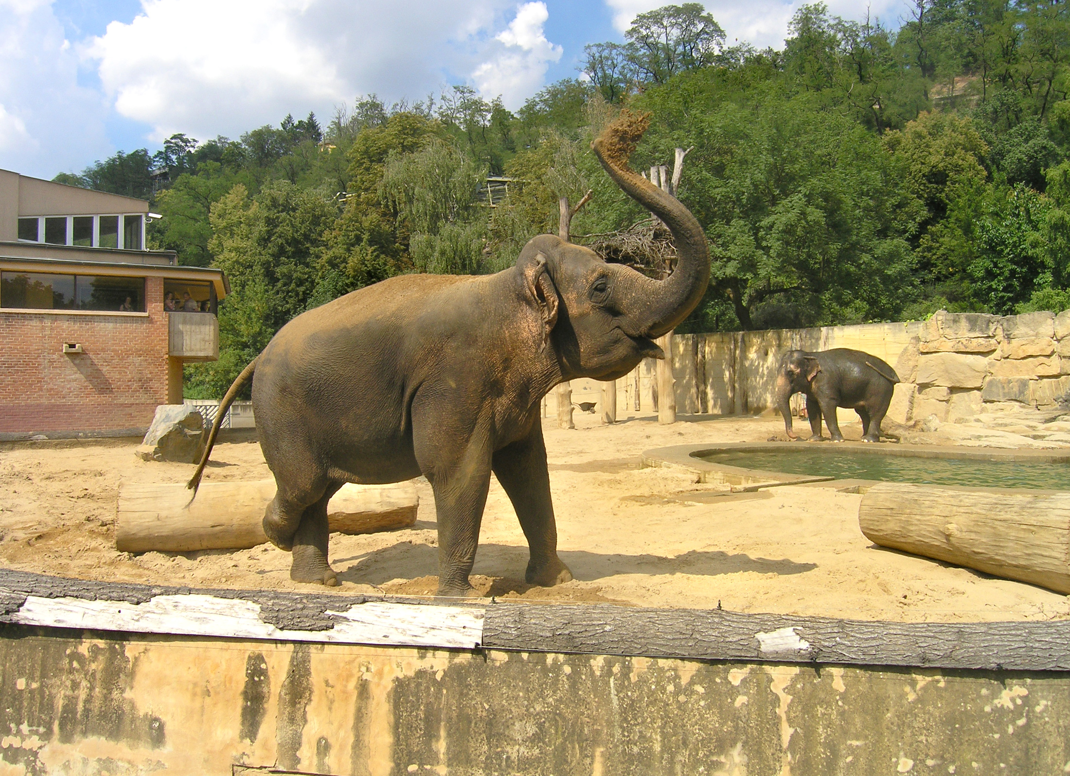 Asian elephant in the pavilion of big mammals in Zoo Prague